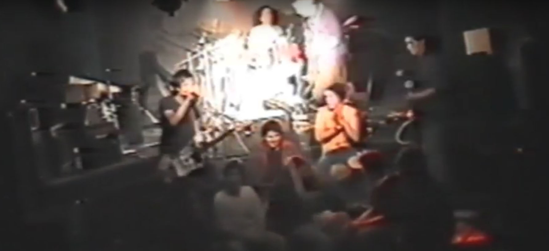 Nada de Nada en CBGB (2001).